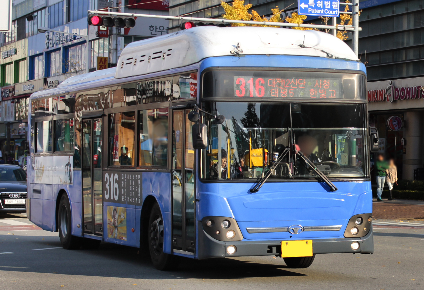 Daewoo BC211M Motorcoach